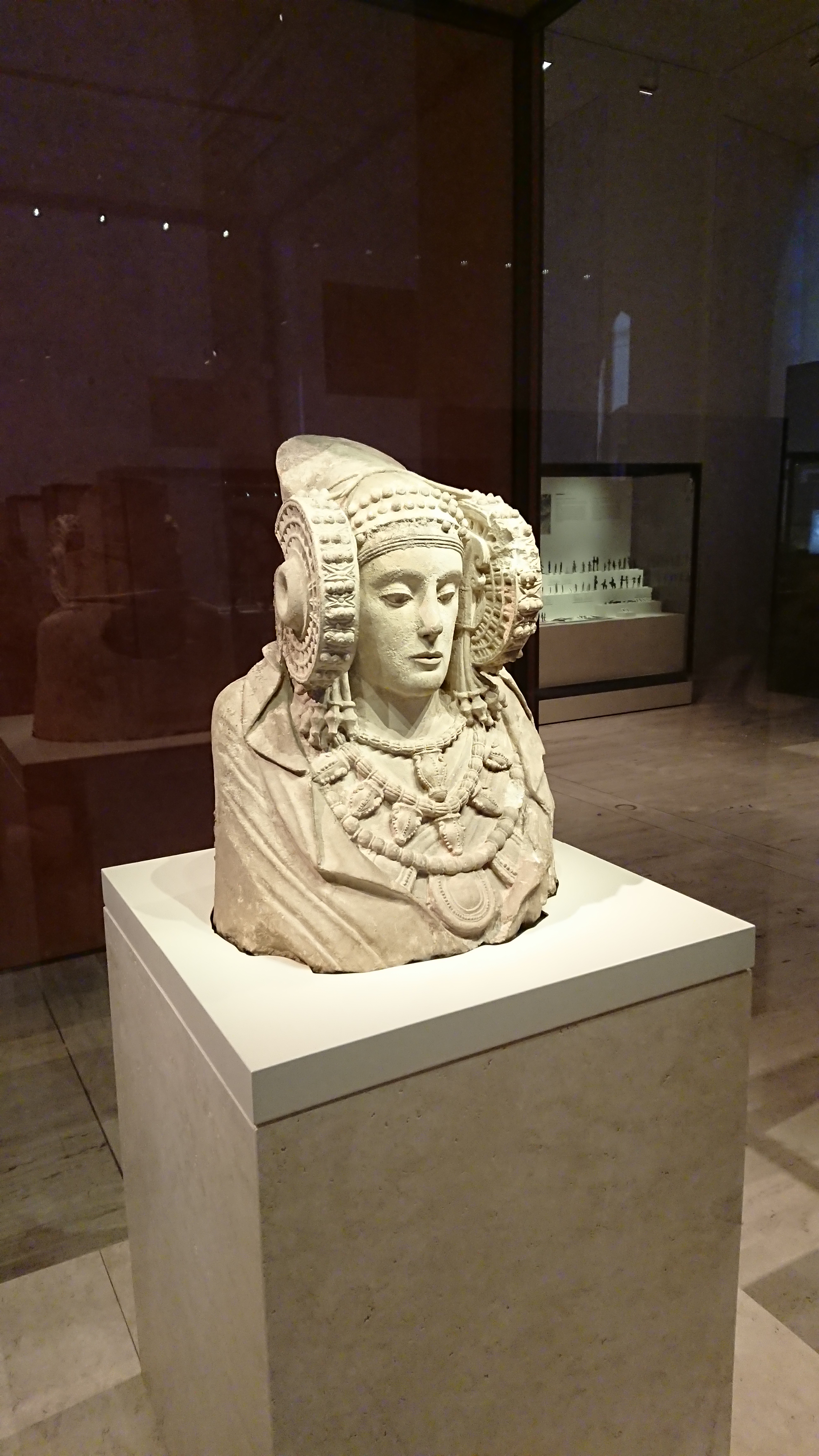 Lady of Elche at the National Arquaeological Museum, Madrid (Spain)